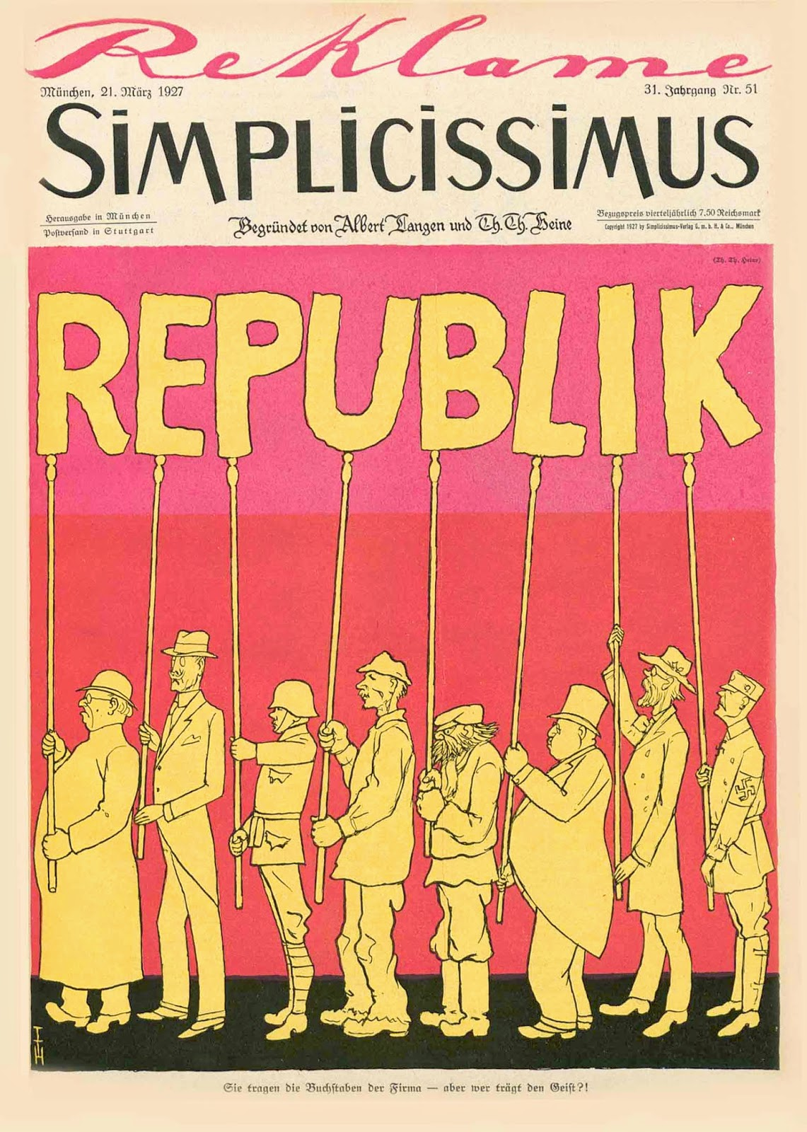 Historical cartoon of the Weimar Republic as a 'republic without republicans'. Published in the German magazine Simplicissimus on 21 March 1927.